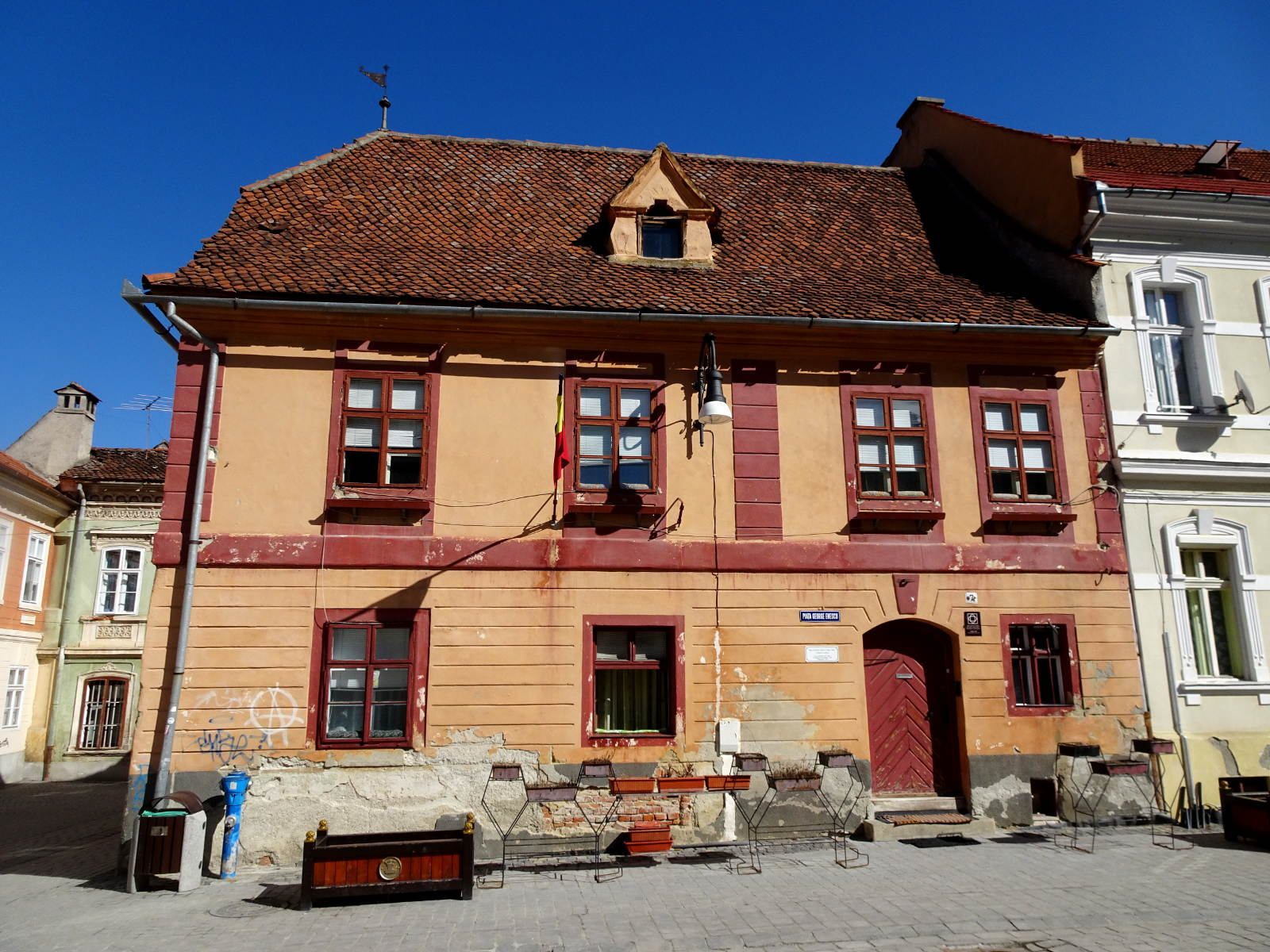 Piața Enescu in Brașov, house number 7